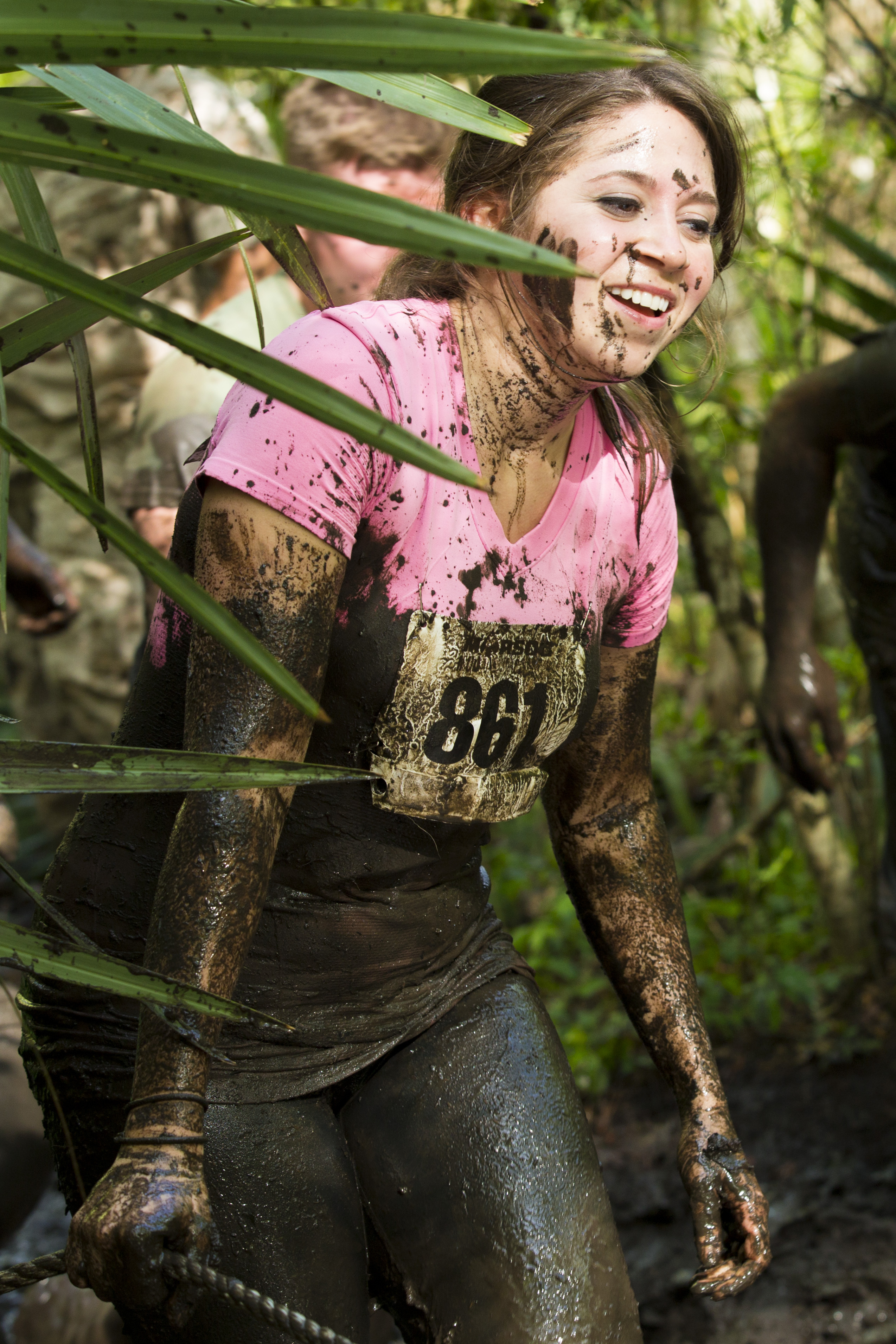 Running enthusiasts converged on Stone Bay for the MARSOC Mud, Sweat & Tears 5-Mile Mud Run at Camp Lejeune, N.C., April 26, 2014. The course offered a glimpse into the trying conditions faced by Marines and sailors training aboard the base. In addition to putting their own mettle to the test on some of the same routes used by the Marine Corps, the families of service members deployed with Combat Logistics Battalion 22, 2nd Marine Logistics Group teamed up with other runners from the 22nd Marine Expeditionary Unit community to hit the course in support of their loved ones overseas. The runners earned their laundry day, turning their bright pink shirts a few hues darker as they splashed through the five-mile obstacle course. Dozens of other teams and hundreds of individual runners also joined the participants from CLB-22.